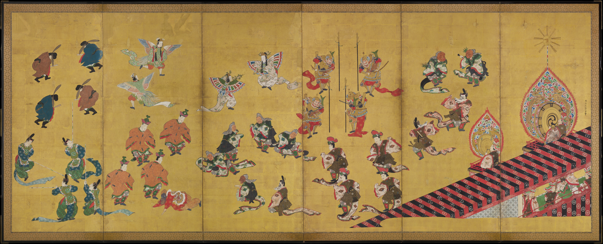 Japan; Folding screens; Screens